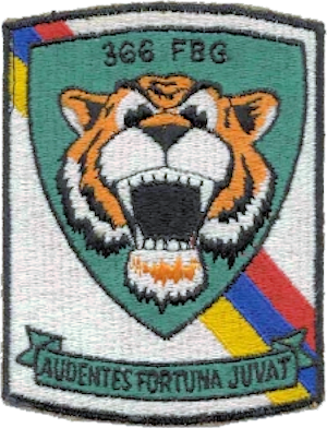 Emblem of the USAF 366th Fighter-Bomber Group